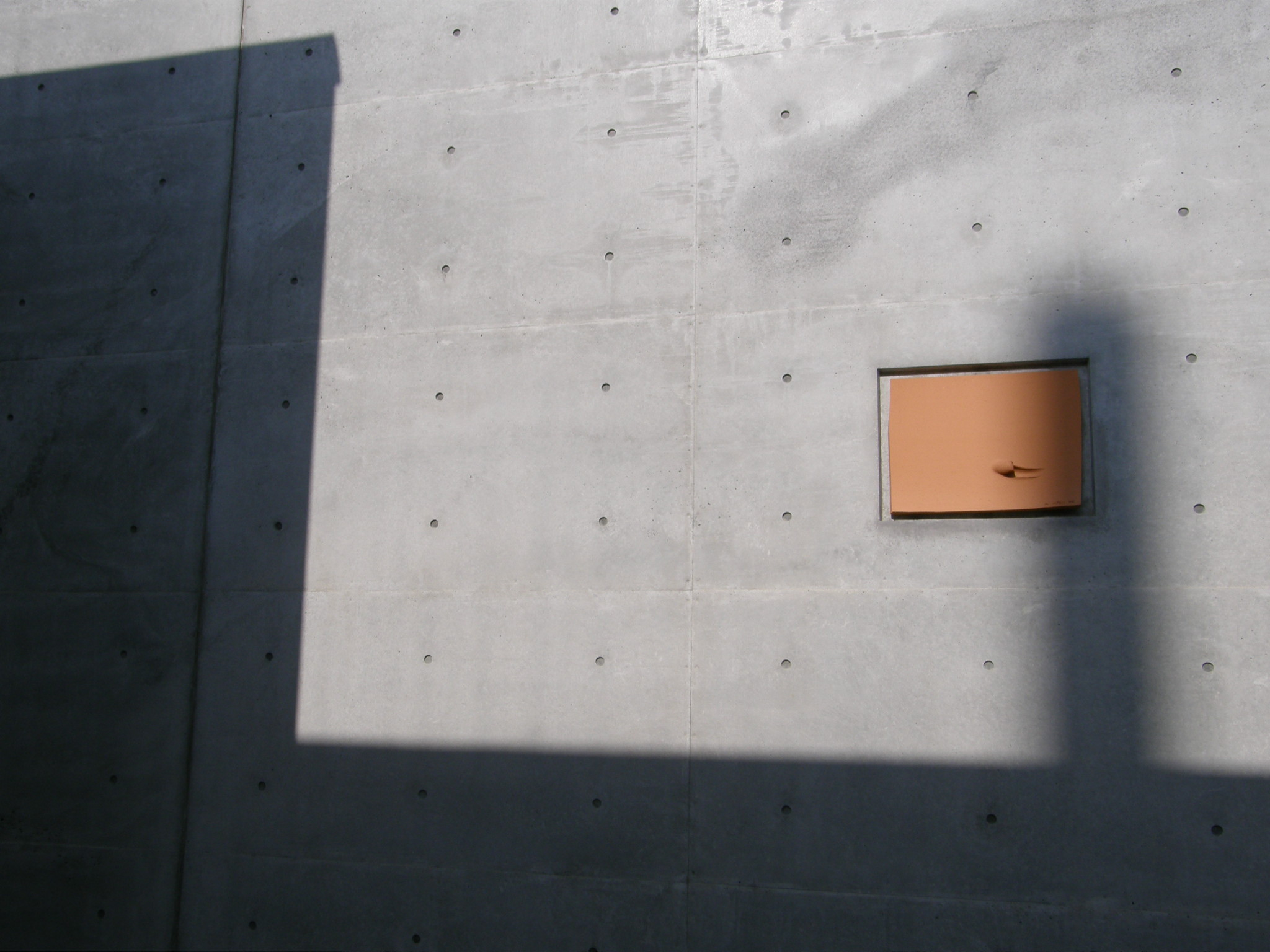 Lee Ufan Museum — with poured in place concrete walls. Contemporary art museum in Kagawa prefecture, Japan. Collaborative work of Tadao Ando and Lee U-Fan.